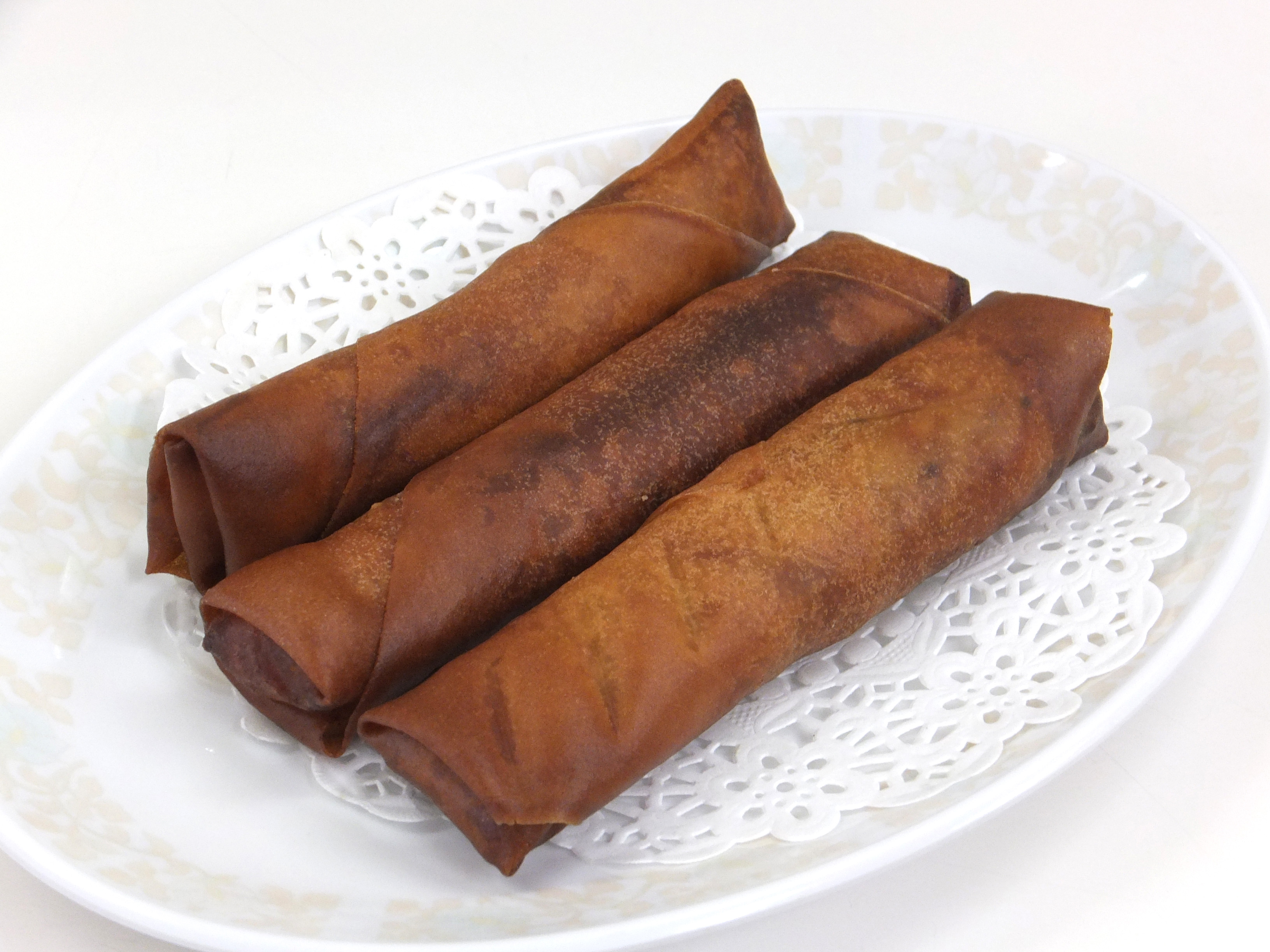 Spring roll, at Gyoza-no-Ohsho